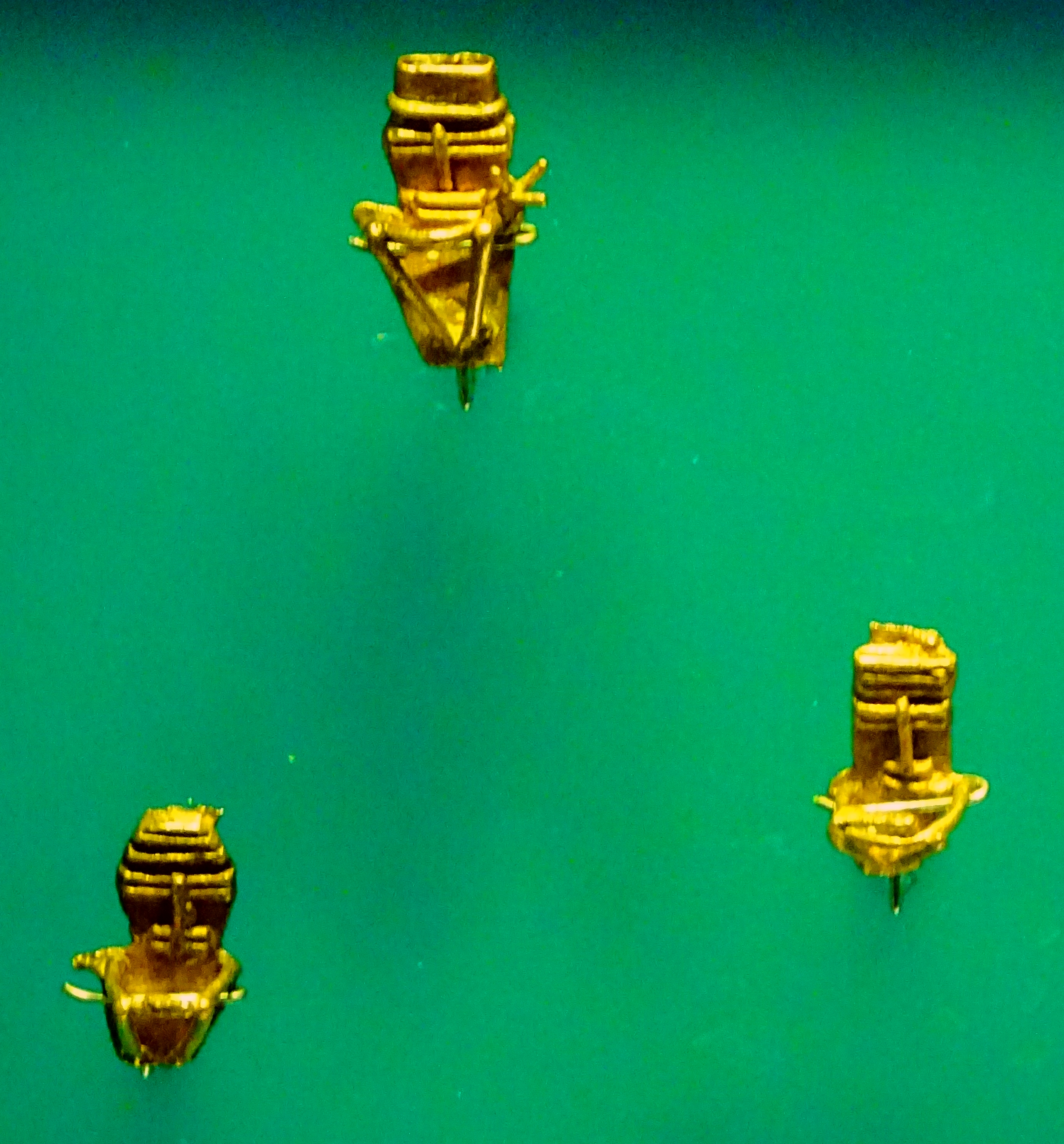 Tunjos of tumbaga, Museo del Oro/Gold Museum, Bogotá, Colombia